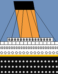 A paint picture displaying the colours that were used on the White Star Line ships at the beginning of the 21st century.